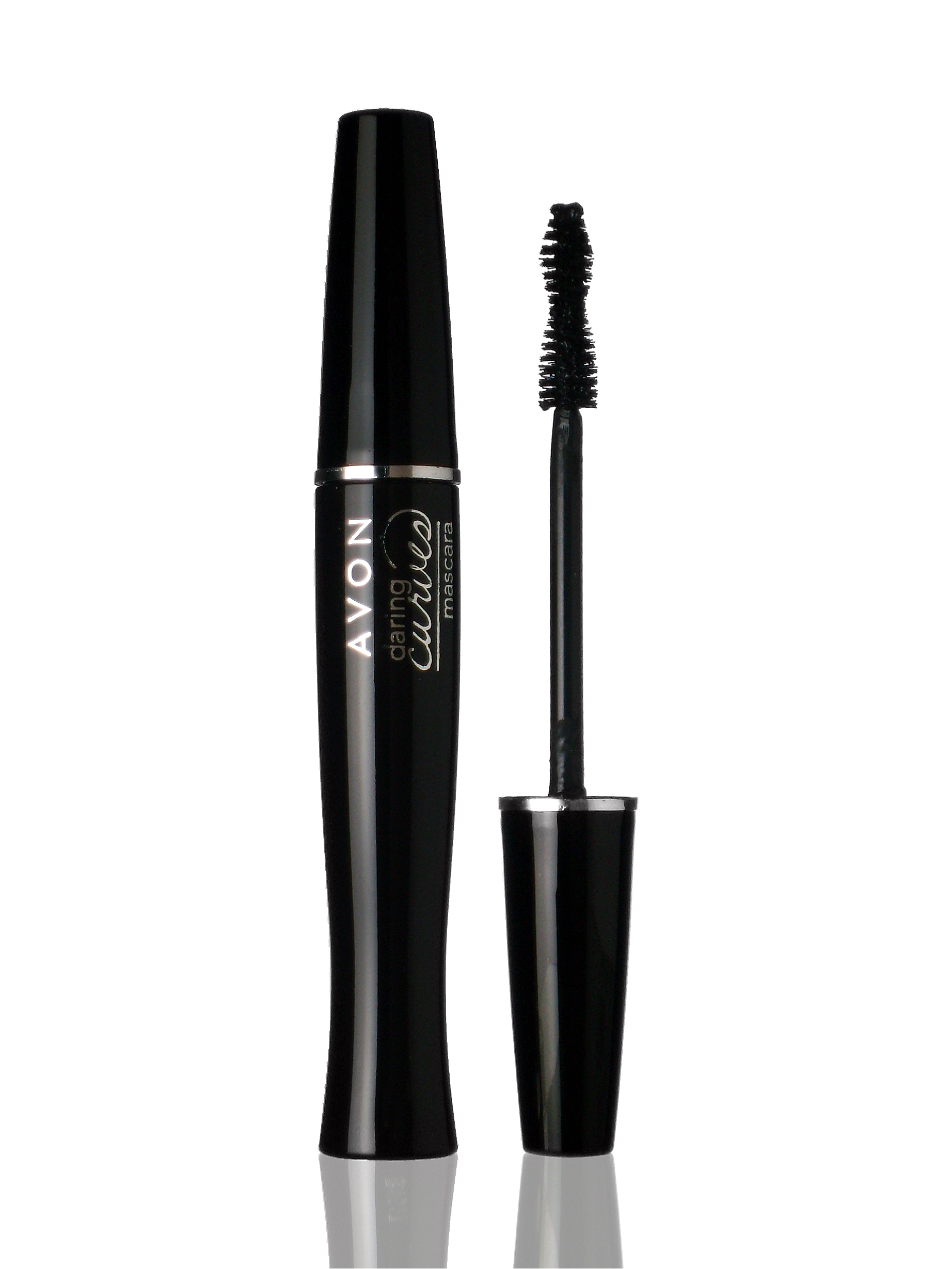 Avon Daring Curves Mascara.